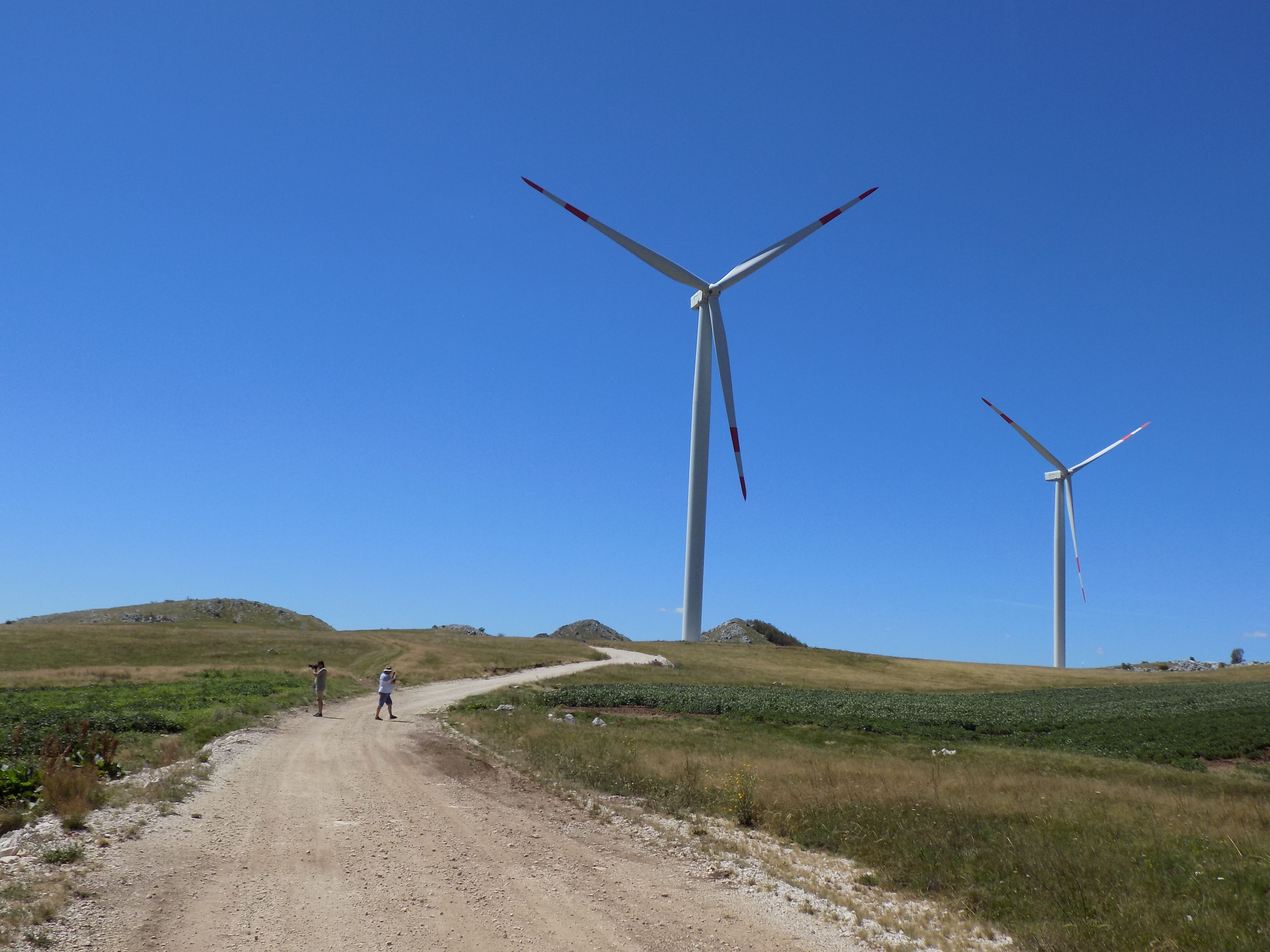 Krnovo Wind farm, Montenegro